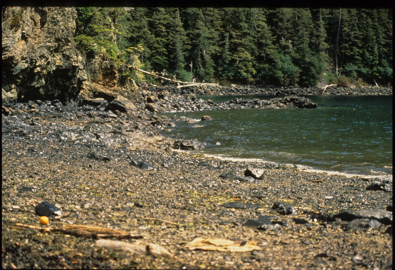 The remains from the Exxon Valdez Oil Spill after the 2nd treatment by oil spill workers in Alaska.